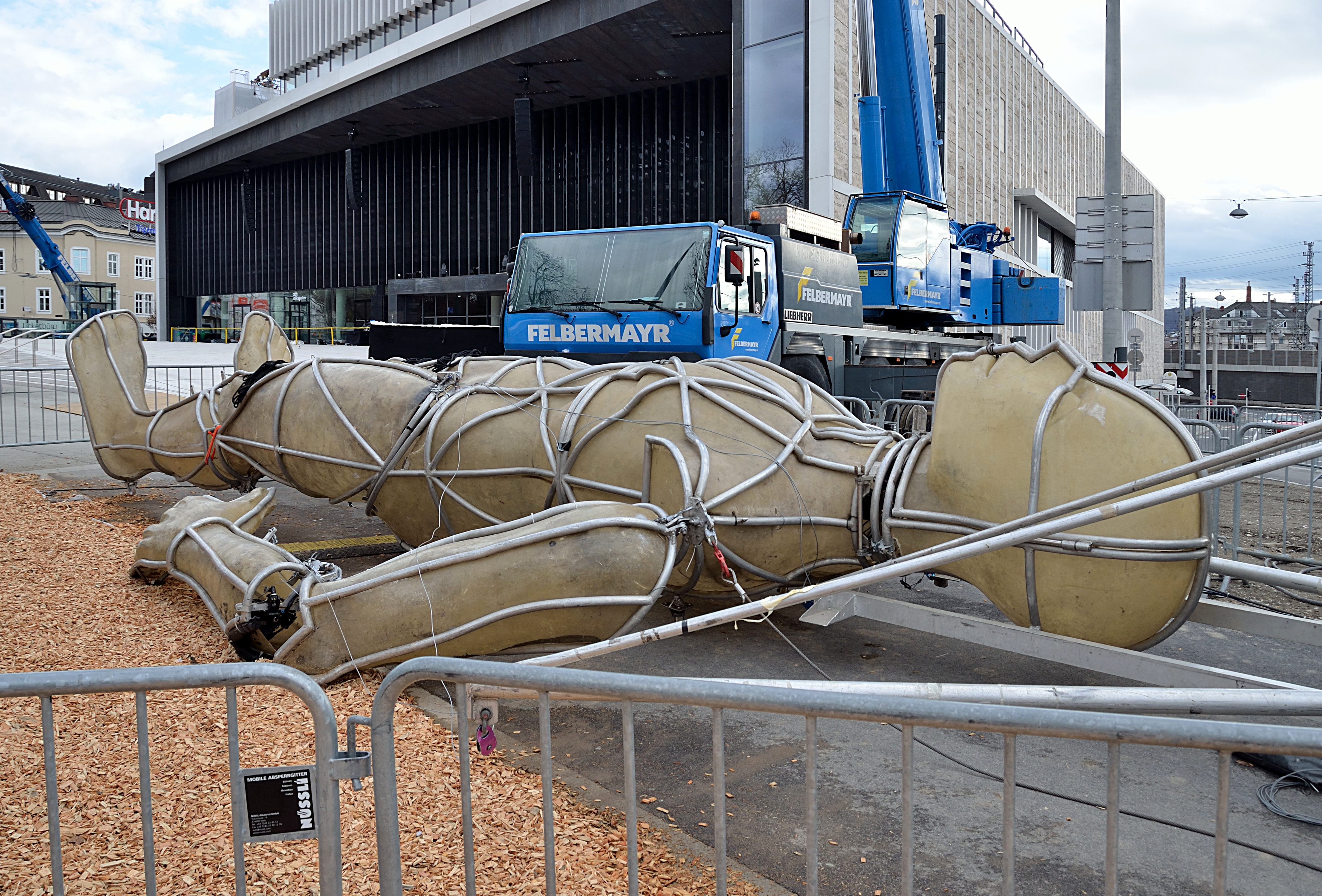 Puppet of La Fura dels Baus used on 11th of April, 2013 in the opening event of the new Musiktheater Linz